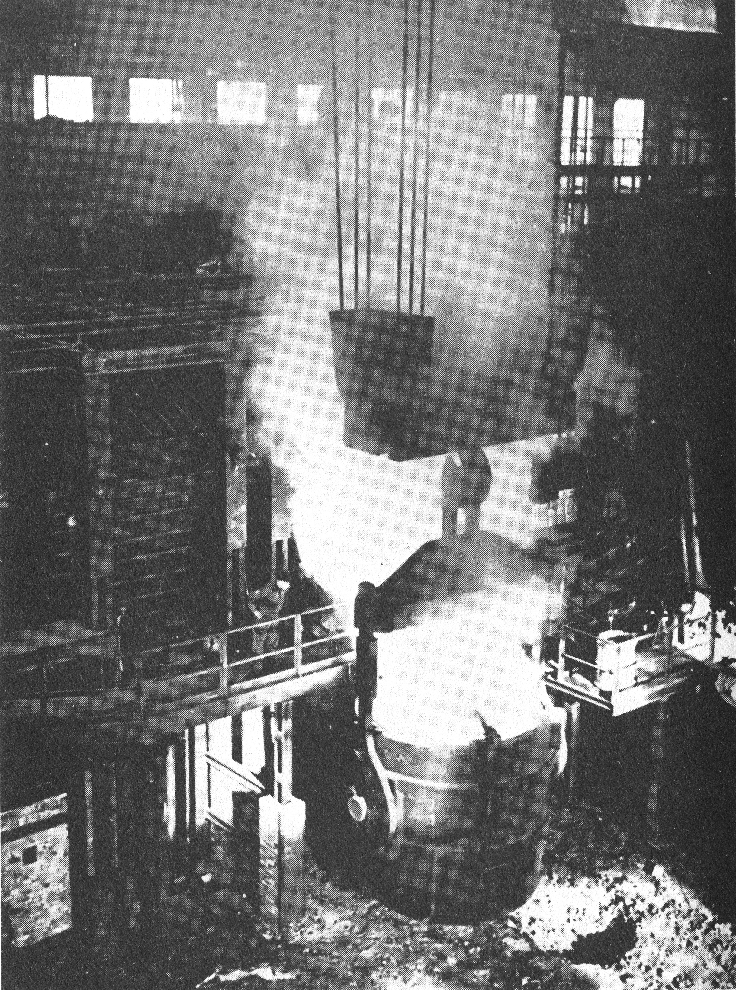 Tapping off of an open hearth furnace in Fagersta Bruk, Sweden.